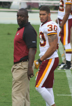 Clarence Vaughn (left is depicted here coaching in a preseason game with LaRon Landry (right) from the Washington Redskins.